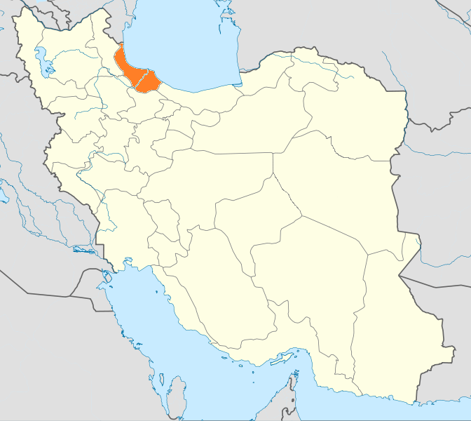 Locator map of Iran